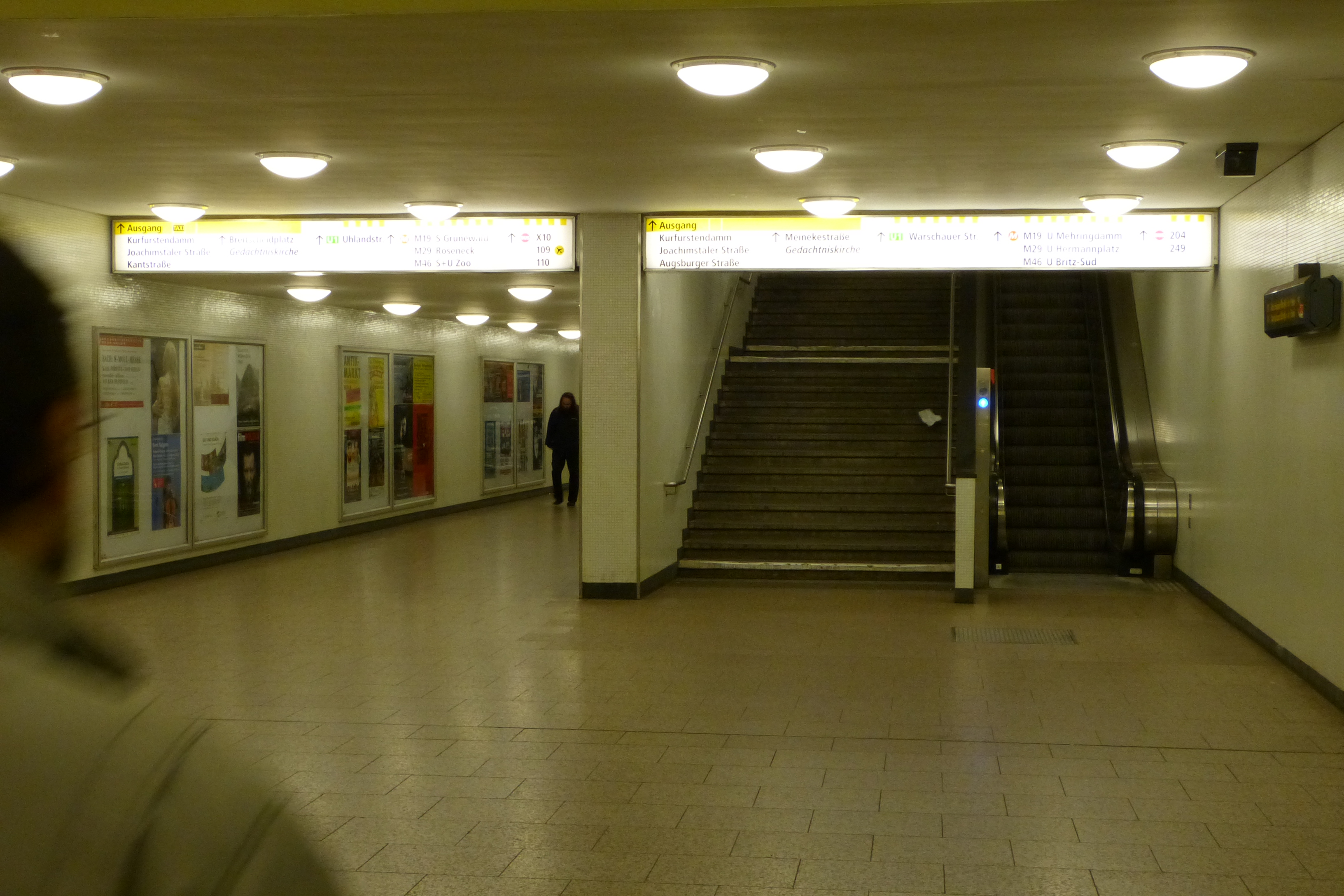 Subway Kurfuerstendamm U9; Aufgang von der U9 zur U1